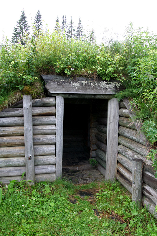 Dugout from finnish museum Taistelijan talo.